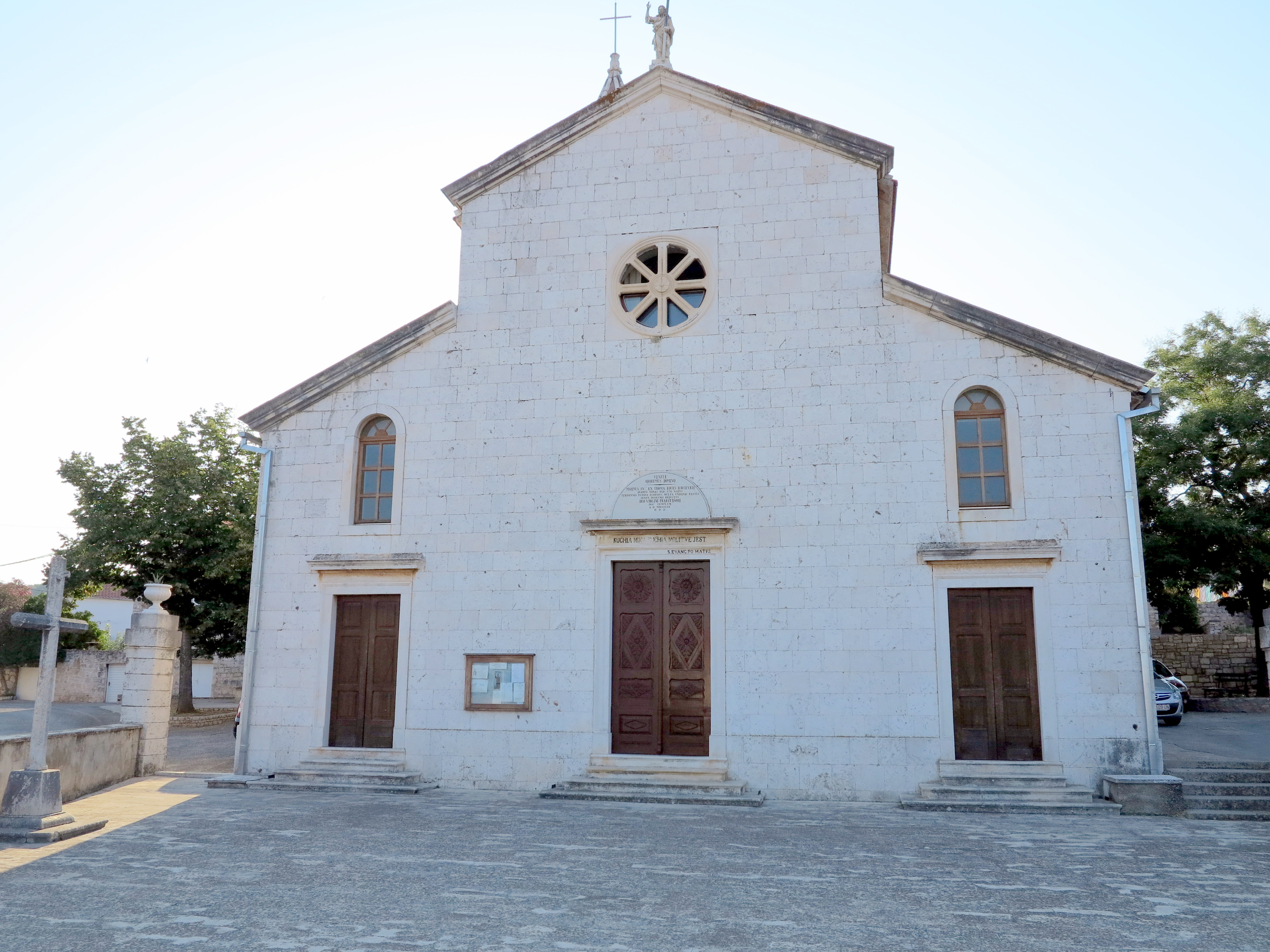 Catholic Church in the village Gornje Selo on the island Šolta / Croatia / Adriatic Sea.